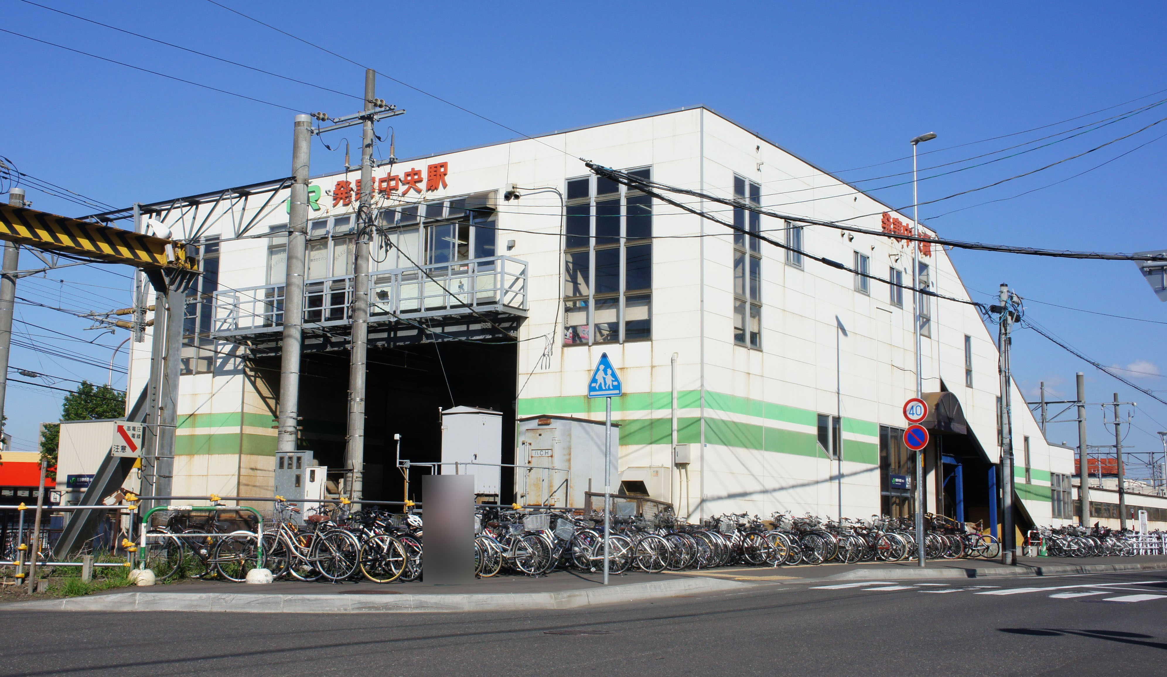 Station building of JR Hakodate-Main-Line Hassamu-Chuo Station